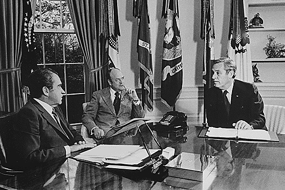 Meeting and photo opportunity in the Oval Office, 11/24/1973. Left to right: U.S. President Richard Nixon, Secretary of Defense Melvin Laird, "Energy Czar" John A. Love.